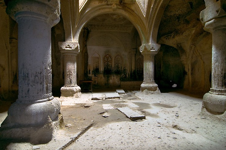 Geghard Mon., Armenia. View: indoor